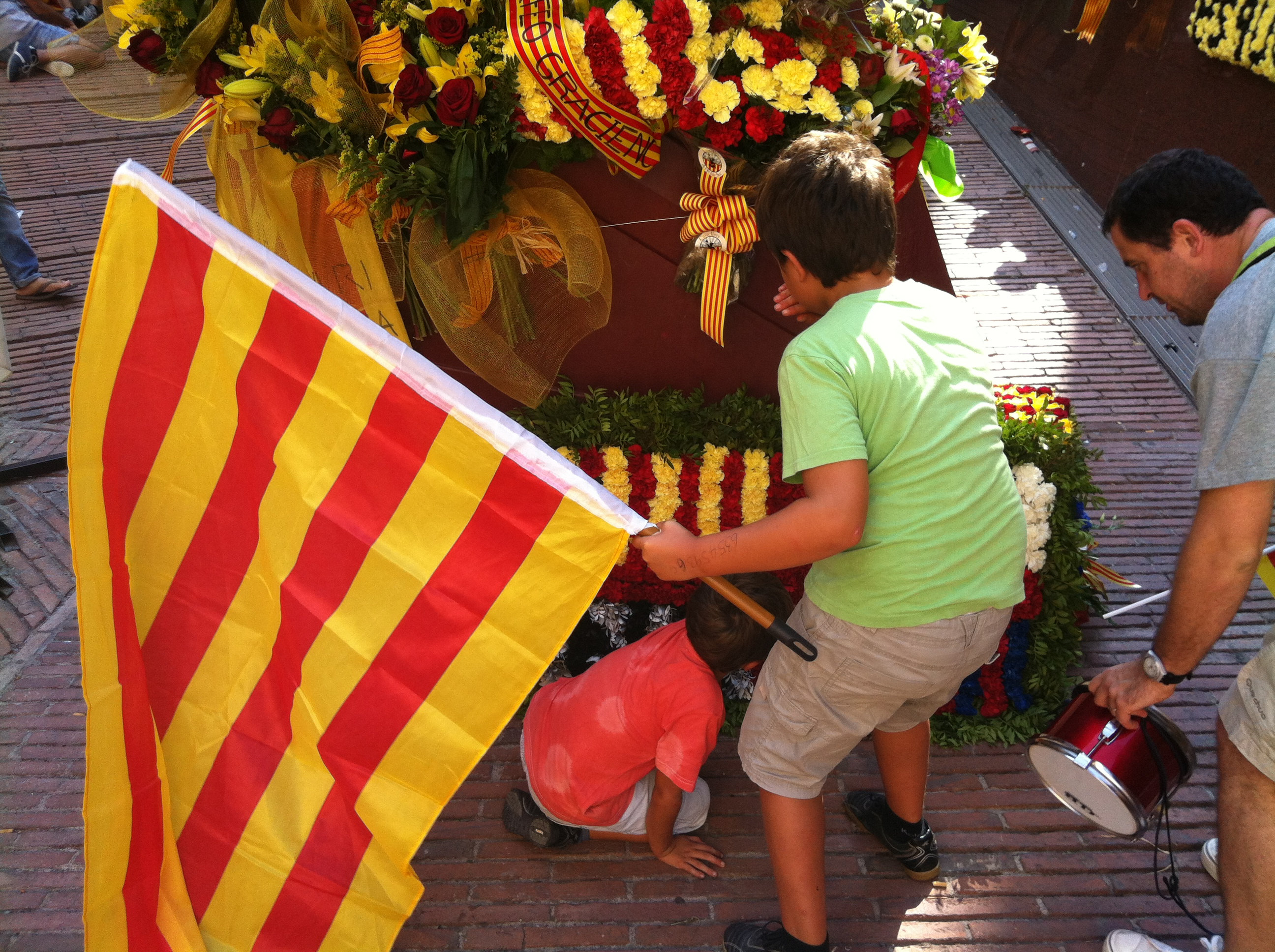 2012 Catalan independence protest on September 11th